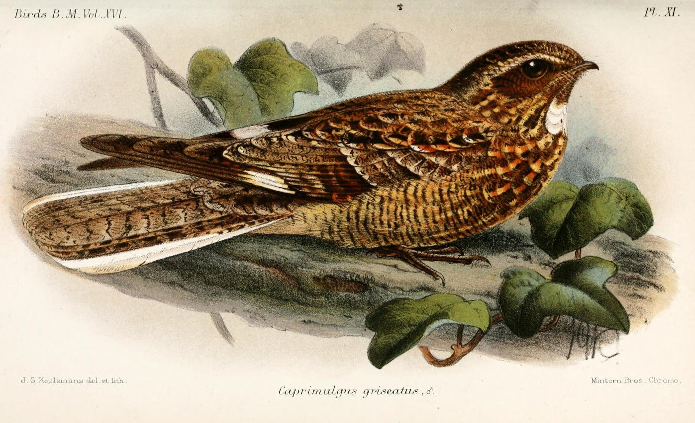 Savanna Nightjar